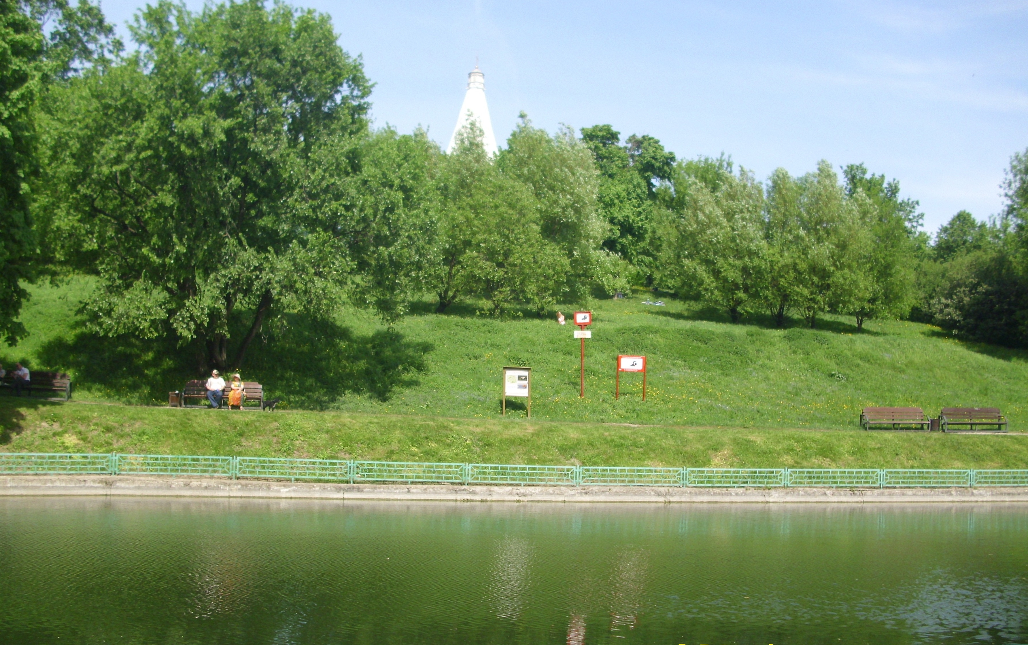 Вид на запад, на Церковь Вознесения Господня